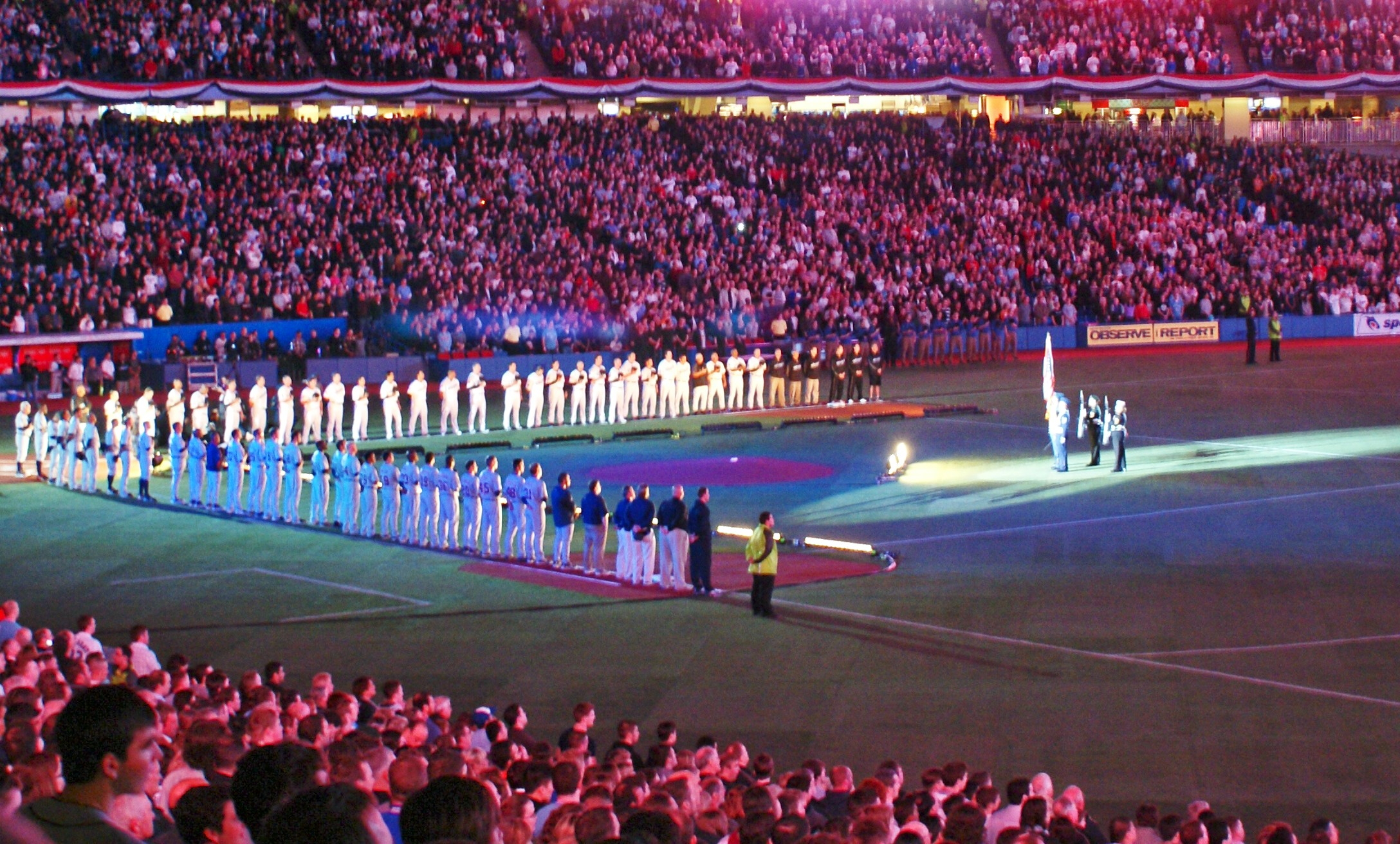 Ceremony